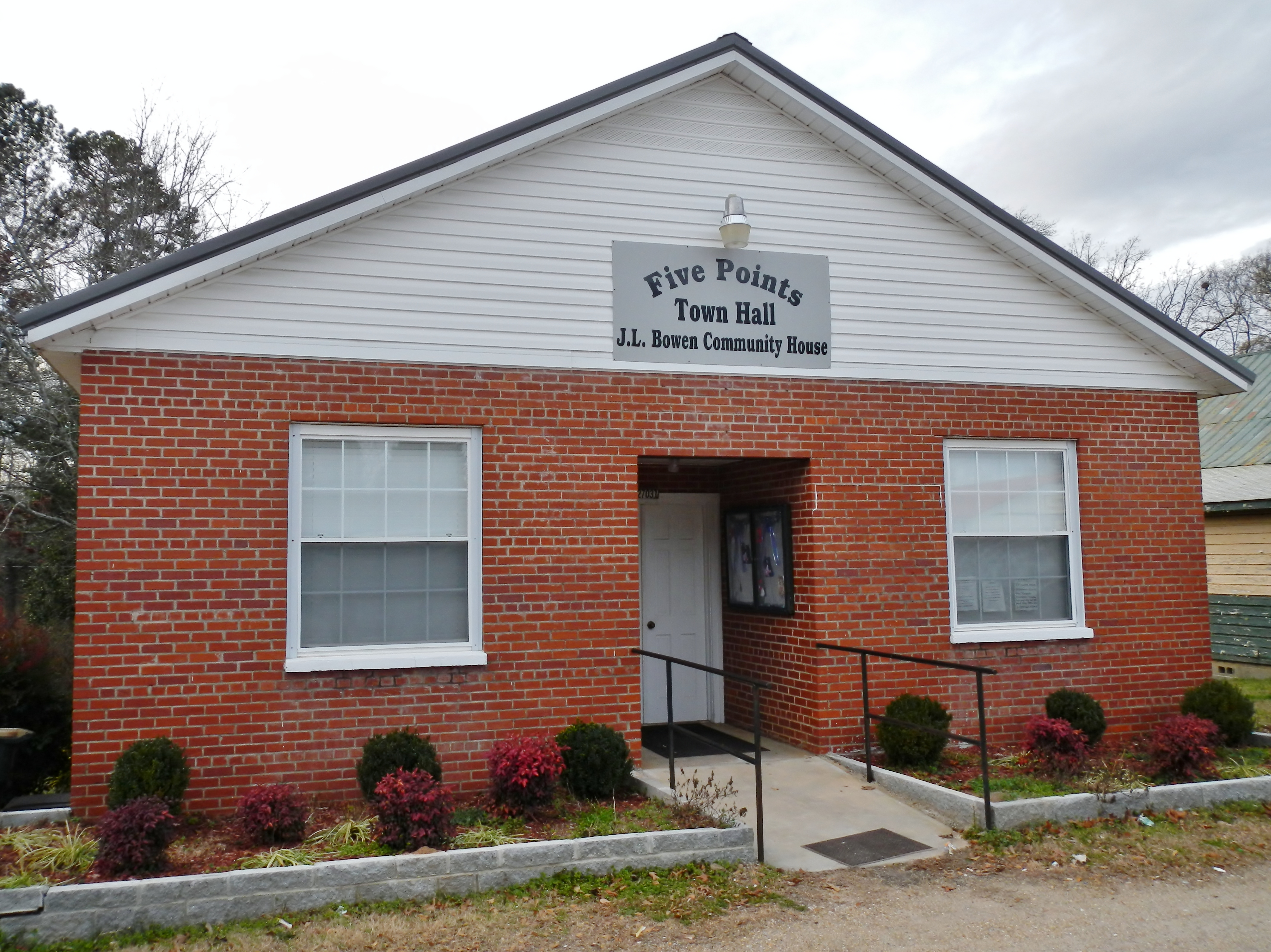 This is a photograph of the town hall in Five Points, Alabama.